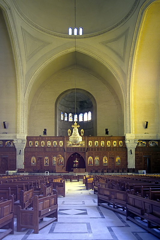 Inside the St. Mark Cathedral, el-'Abbasiya, Cairo, Egypt